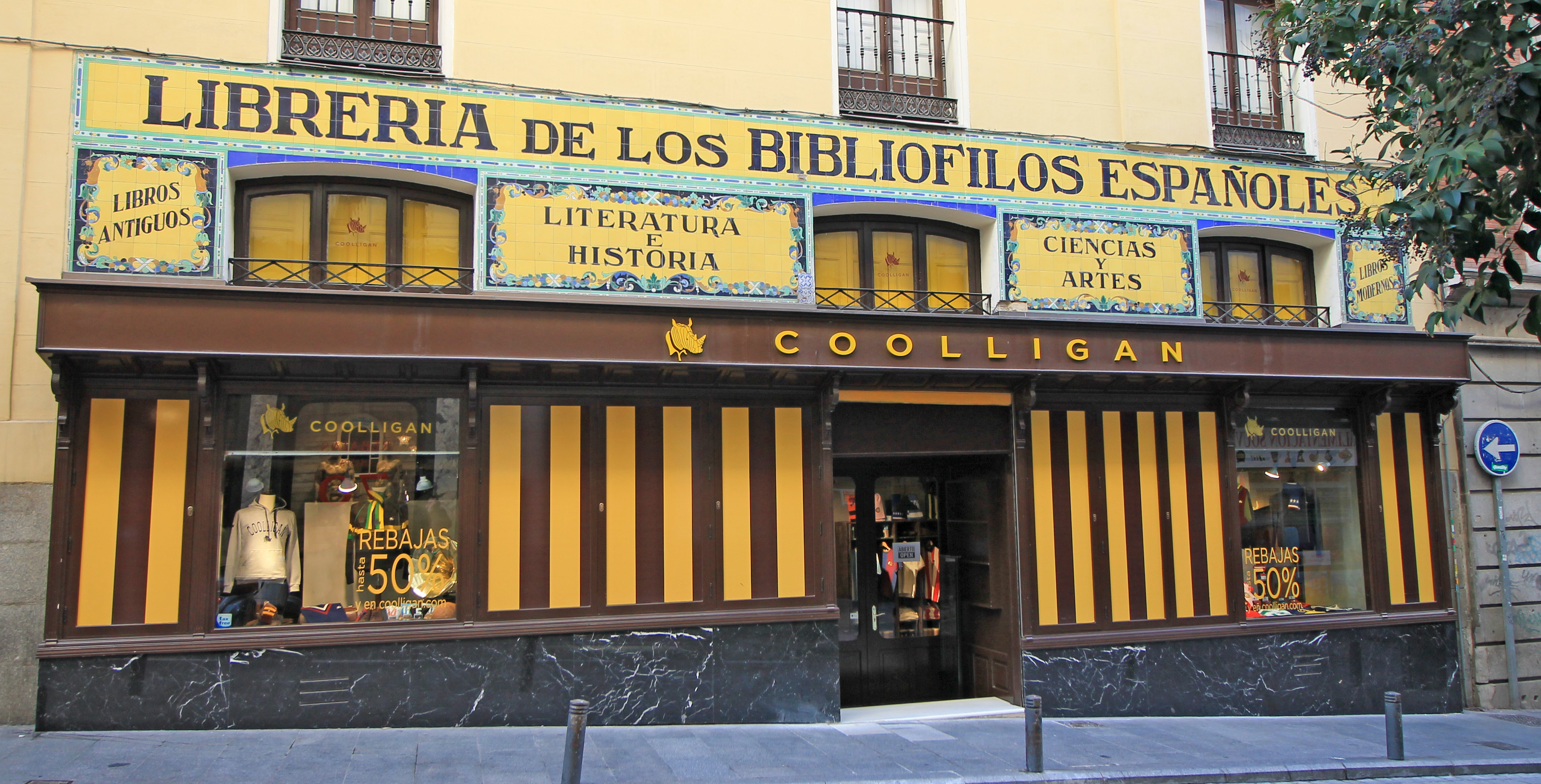 Former Librería de los Bibliófilos Españoles (a bookshop) at 1st Travesía del Arenal (street) in Madrid (Spain). Azulejos made by Enrique Guijo.